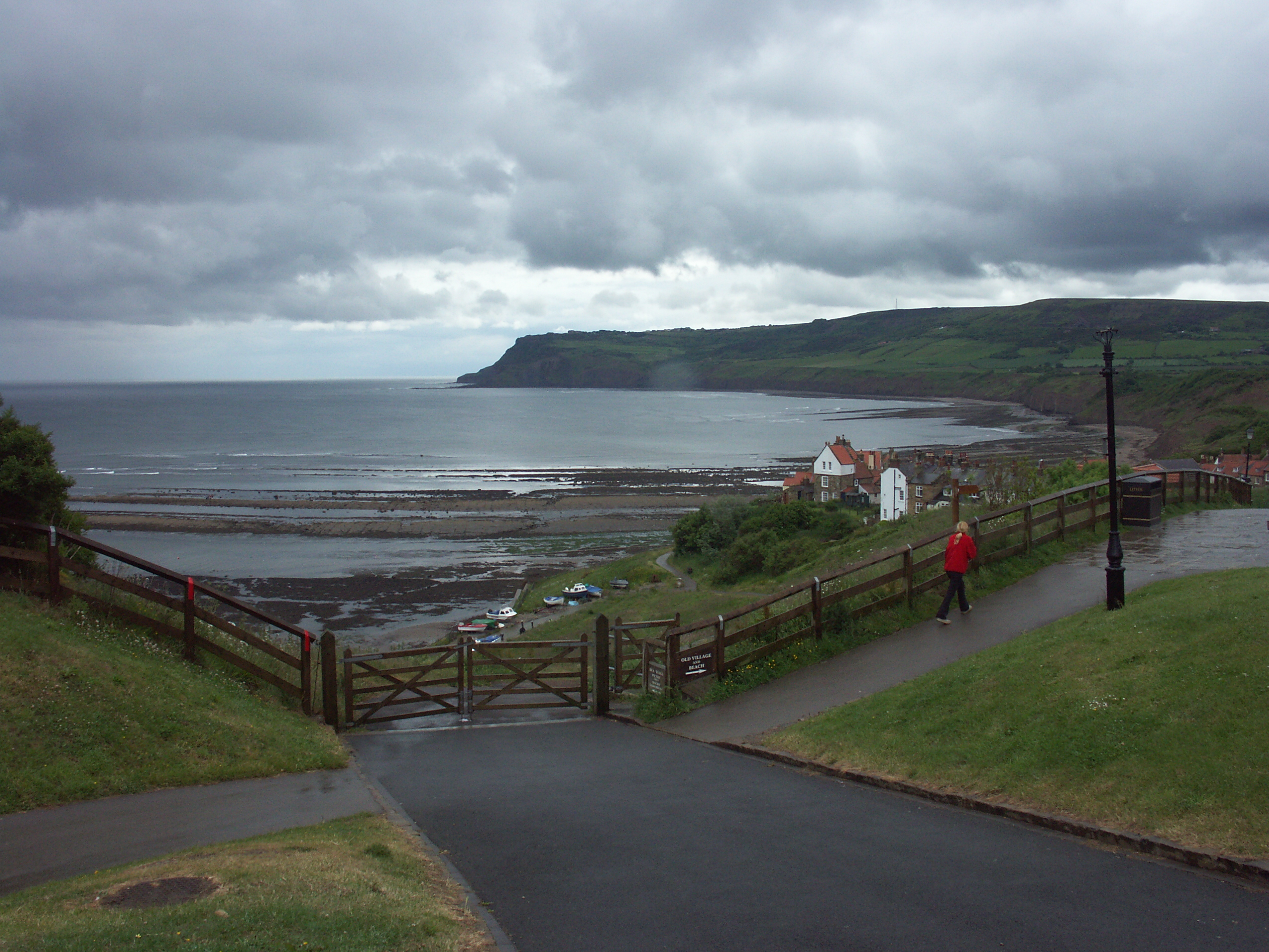 Robin Hood Bay, England Author: Radovan Bahna, Slovak republic